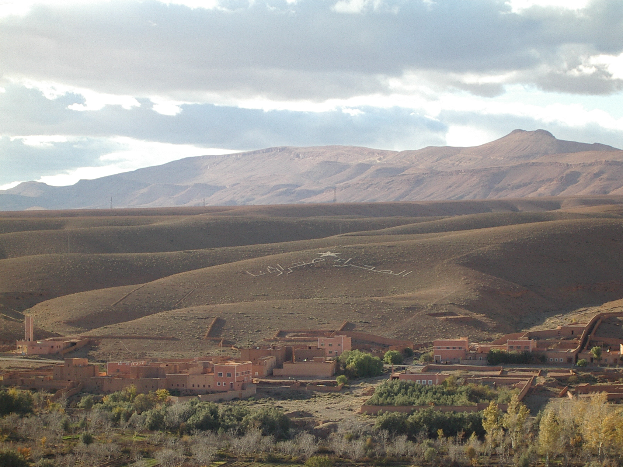 Casbah in Morocco